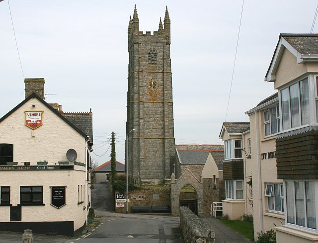 St Columb Minor Church Tower. This 115 feet high tower is the second highest in Cornwall and was built in the 15th century. The church dates from 1417 and has undergone extensive restoration on two occasions since.